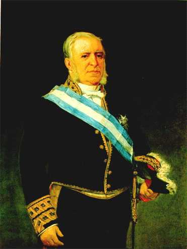 Spanish Politician Alejandro Llorente